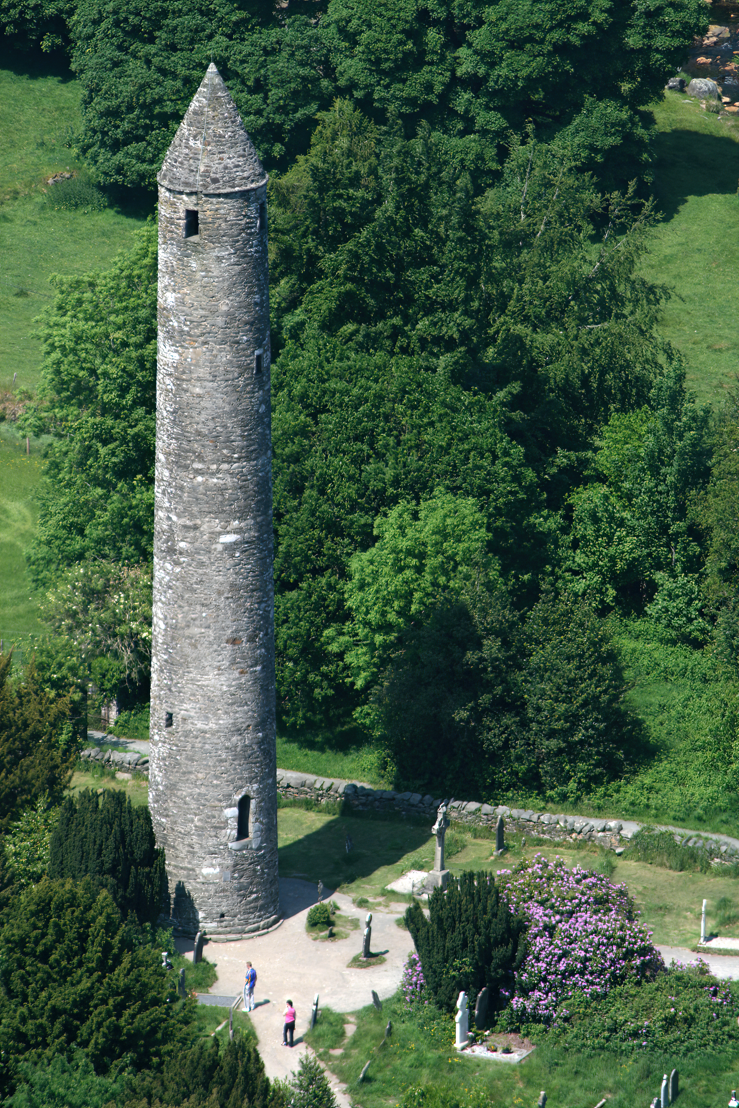 Round Tower in Glendalough, Wiclow Mountains, Ireland